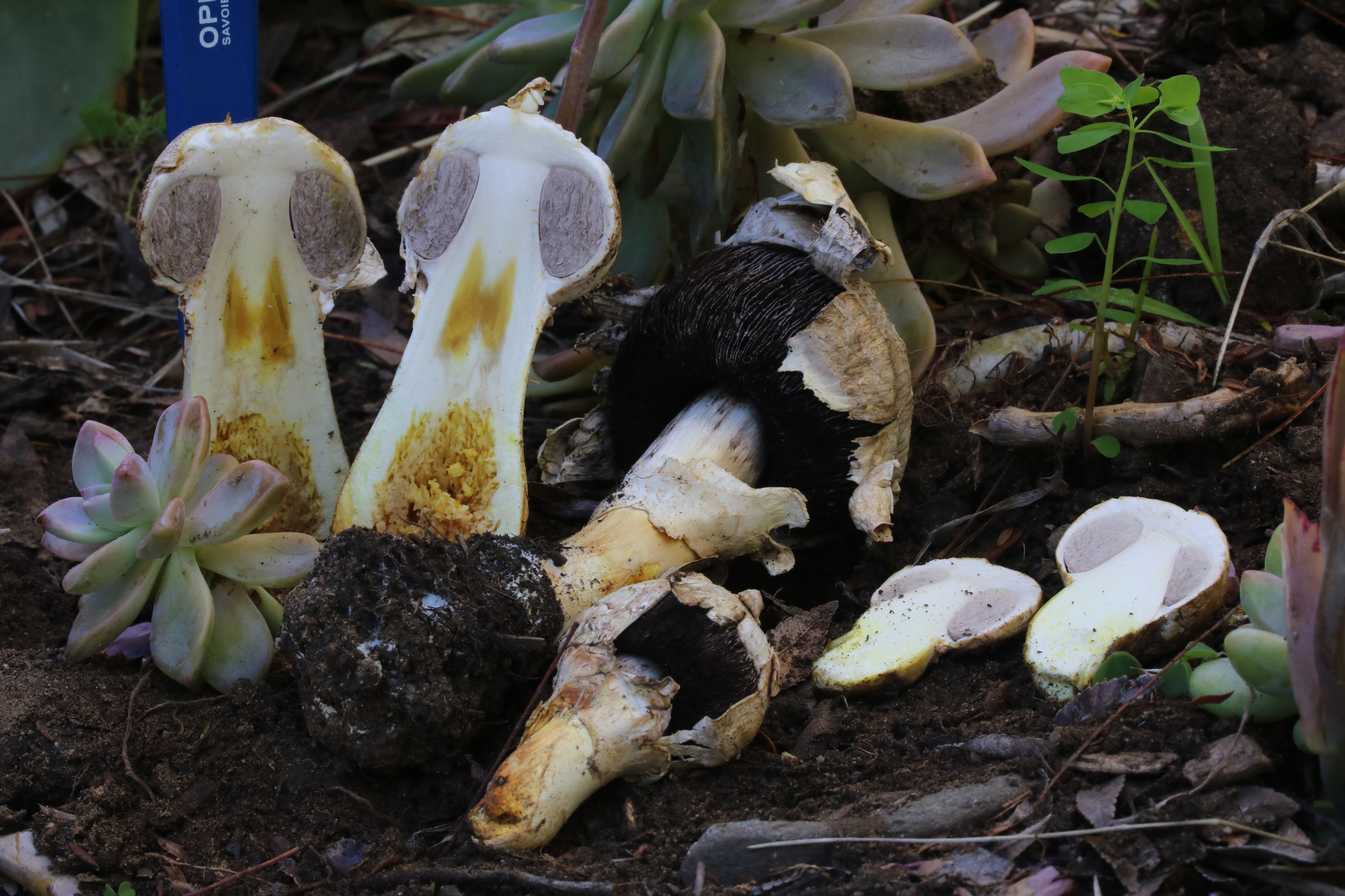 Agaricus deserticola G. Moreno, Esqueda & Lizárraga Image location: Los Angeles Co., California, USA Recognized by sight For more information about this, see the observation page at Mushroom Observer.